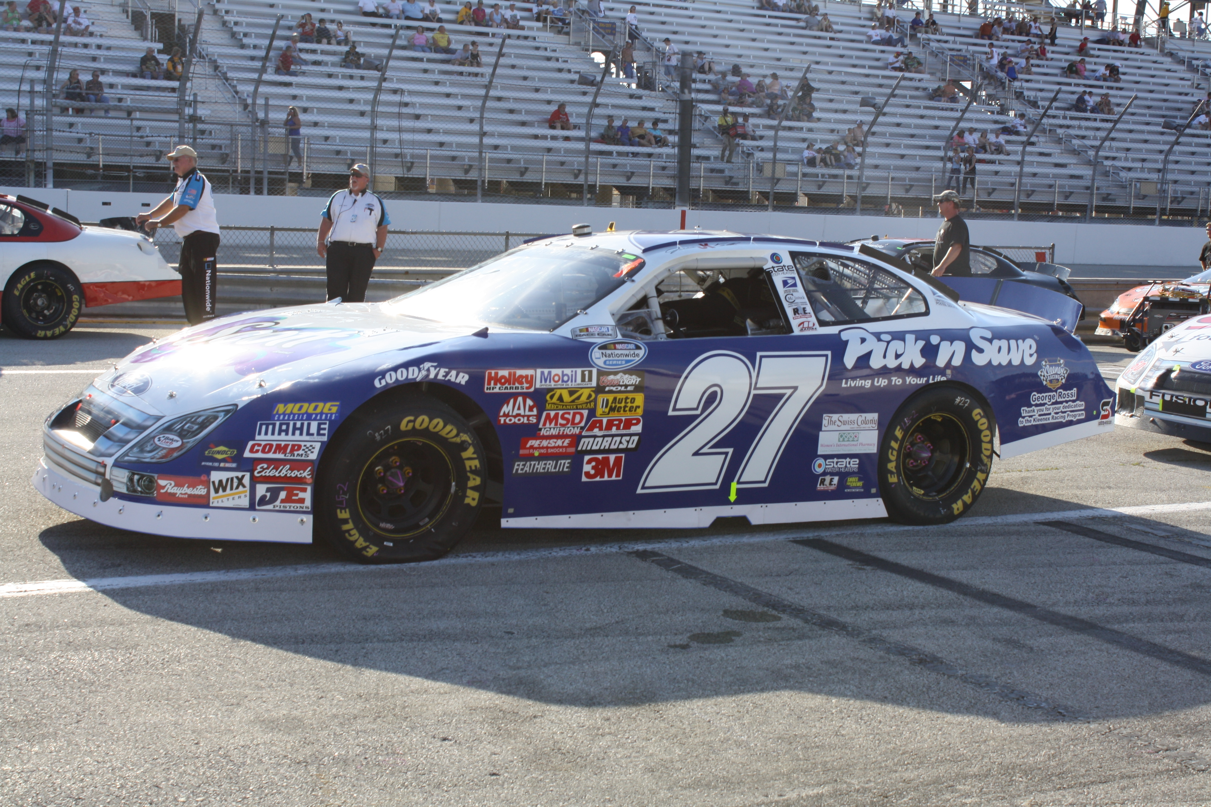 NASCAR driver Jason Kellers Ford at the 2009 Northern 250 Nationwide Series race at the Milwaukee Mile.